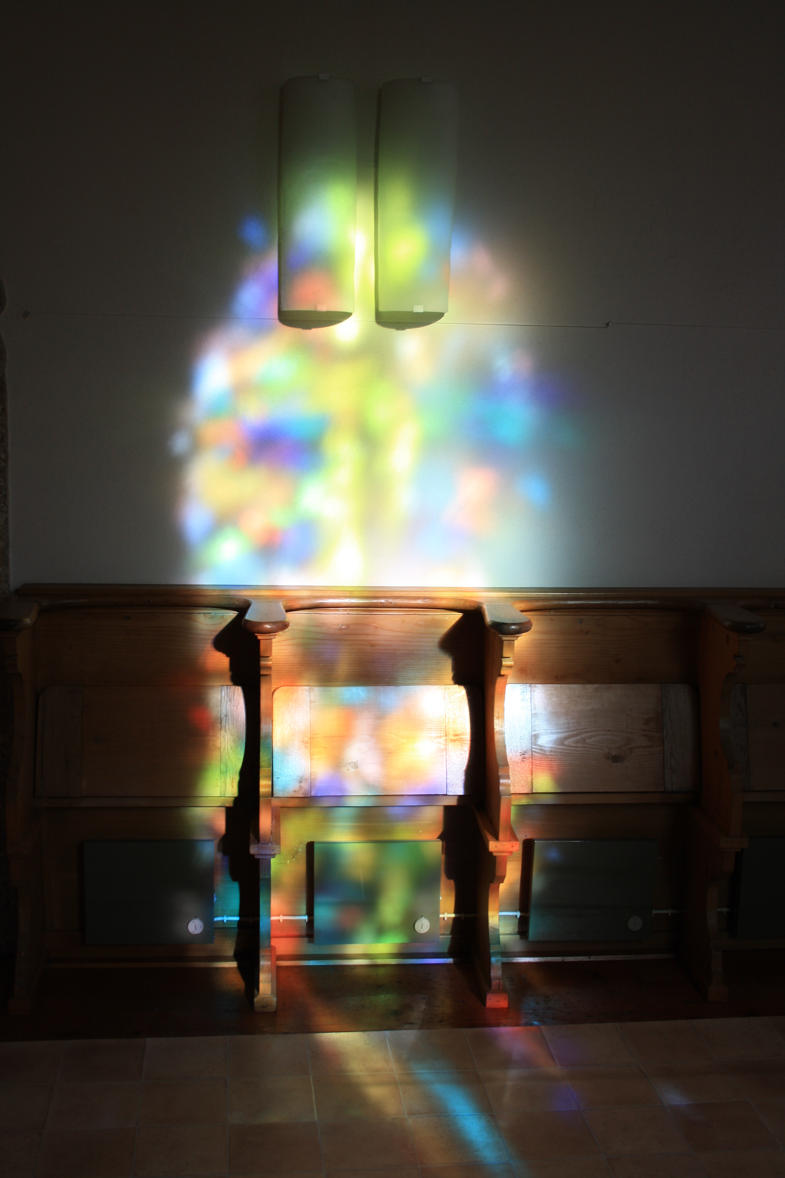 Colours of window at the wall of the church of Bözberg